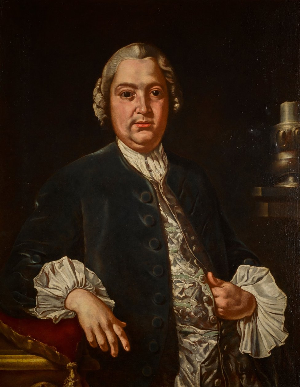 Portrait of the composer Niccolò Jommelli (1714-1774), half-length, in a blue coat and satin waistcoat